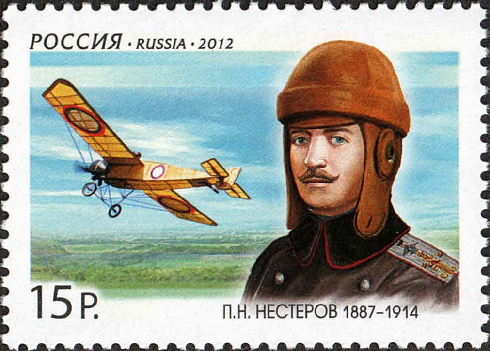 125th birth anniversary of Pyotr Nesterov, a Russian pilot, an aircraft technical designer and an aerobatics pioneer. The portrait of Pyotr Nesterov (in the uniform of a Staff Captain of Imperial Russian Air Force); the aeroplane Morane-Saulnier G which was used by P. Nesterov in his ramming, the first aerial ramming in the history of military aviation. The stamp of Russia, 15 Rubles, 13 February 2012, PTC Marka Catalogue No 1558, Michel No 1790. Coated paper. Offset printing. Perforation: comb 12½:12. Size of the stamp: 42×30 mm. Print run: 480,000.